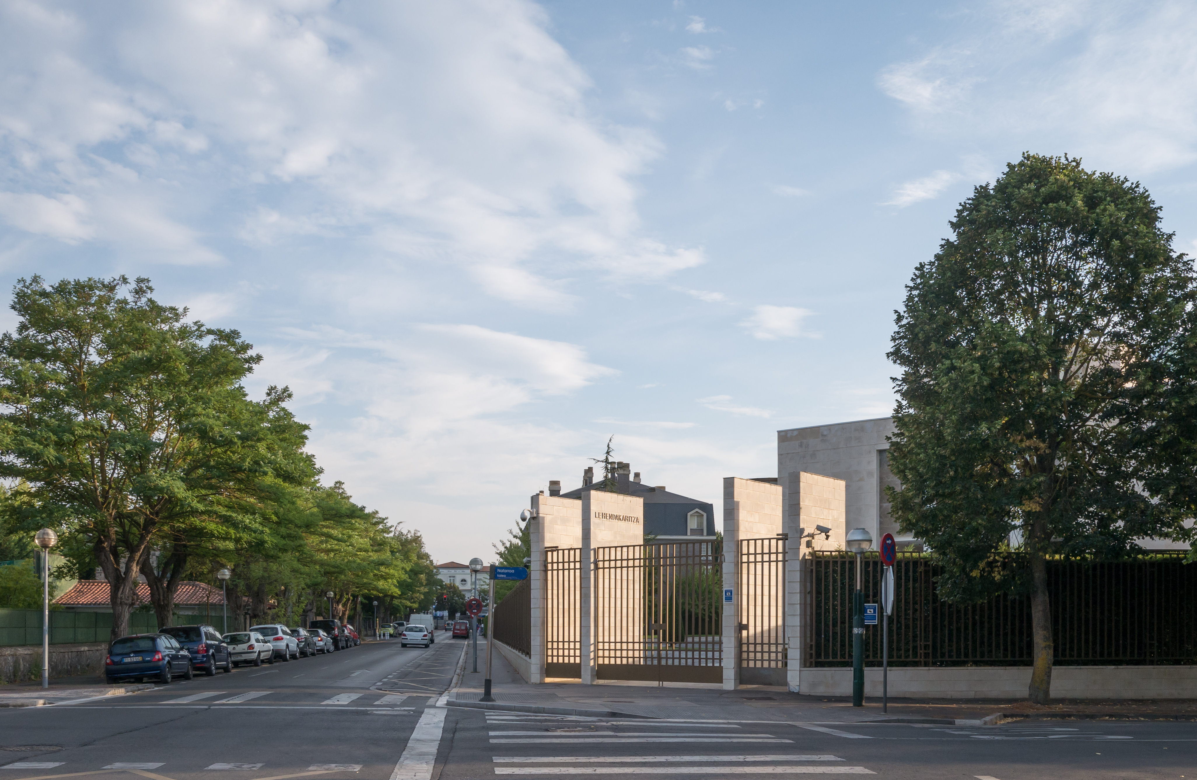 Lehendakaritza, presidential offices of the Basque Government. Vitoria-Gasteiz, Basque Country, Spain